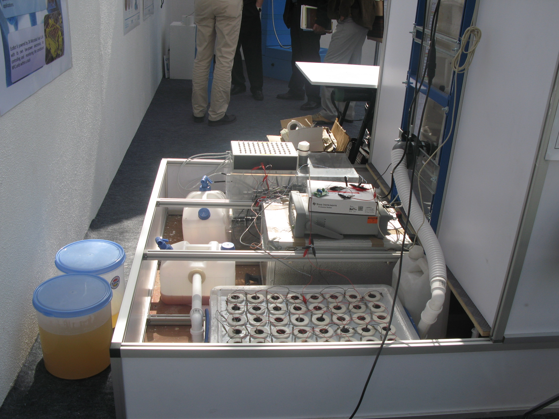 Urinal facility with integrated MFC (microbial fuel cell) technology for mobile phone charging University of the West of England (UWE), Bristol UK